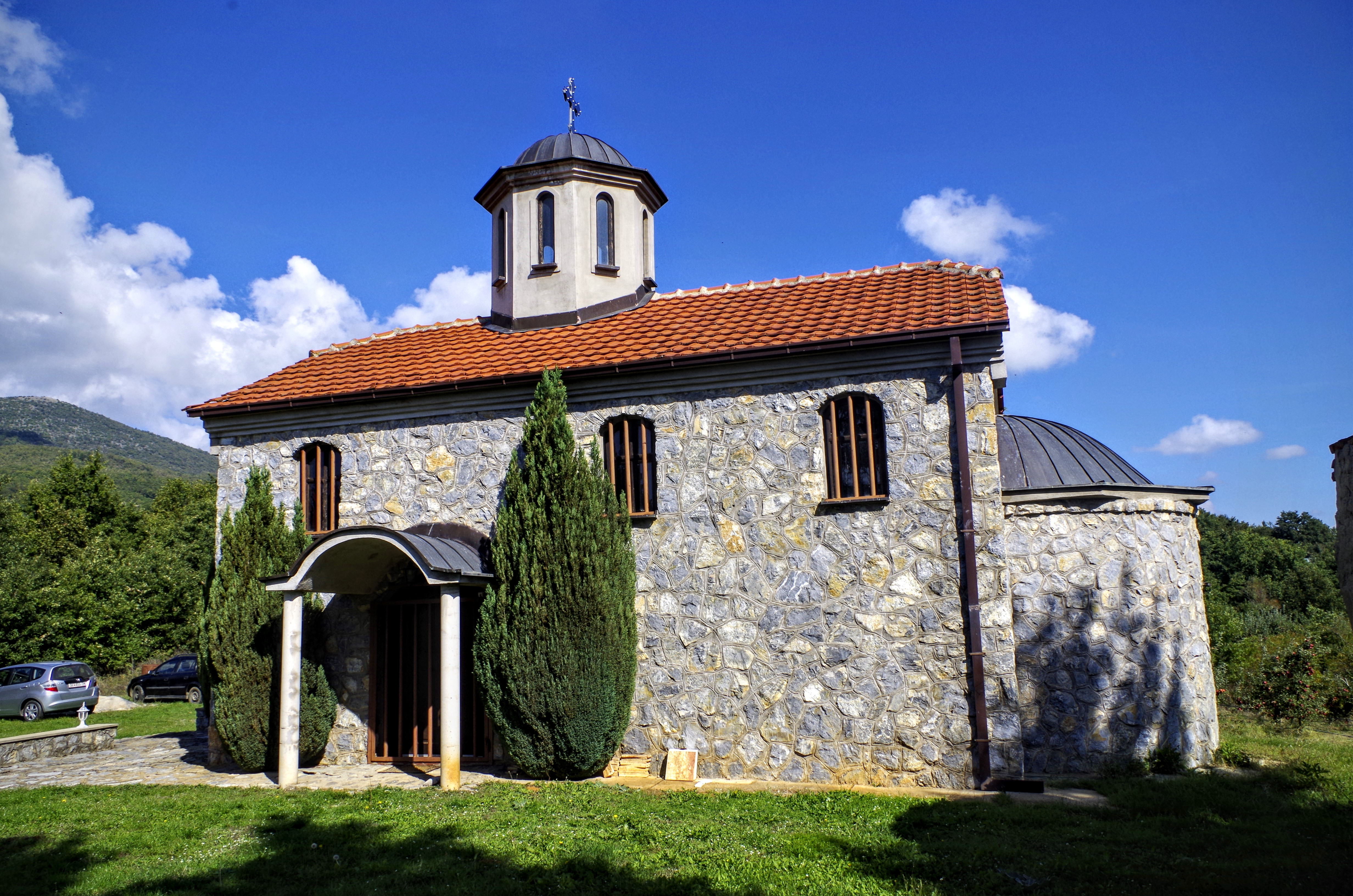 View of St. Nicholas Church in the village Pokrvenik